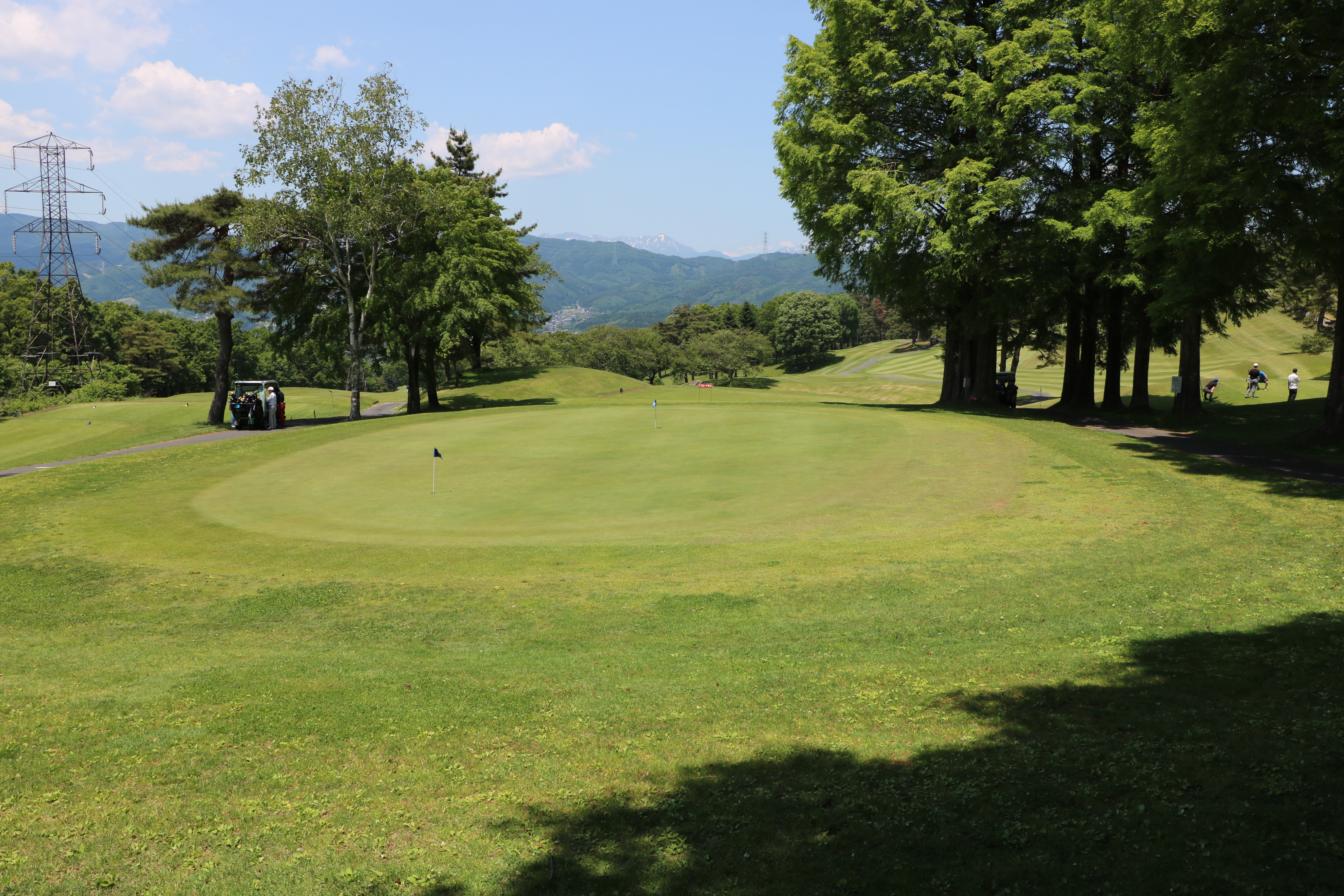 Northern Country Club JOMO Golf Course In-Out Teeing point Putting Practice Area